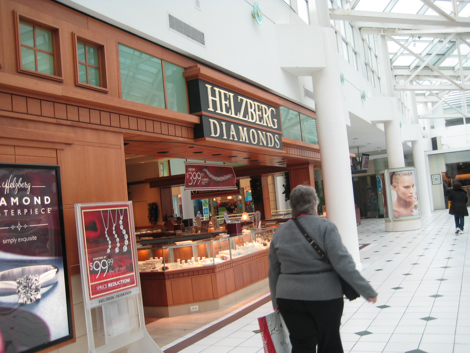 Helzberg Diamonds Shop in Washing, D.C